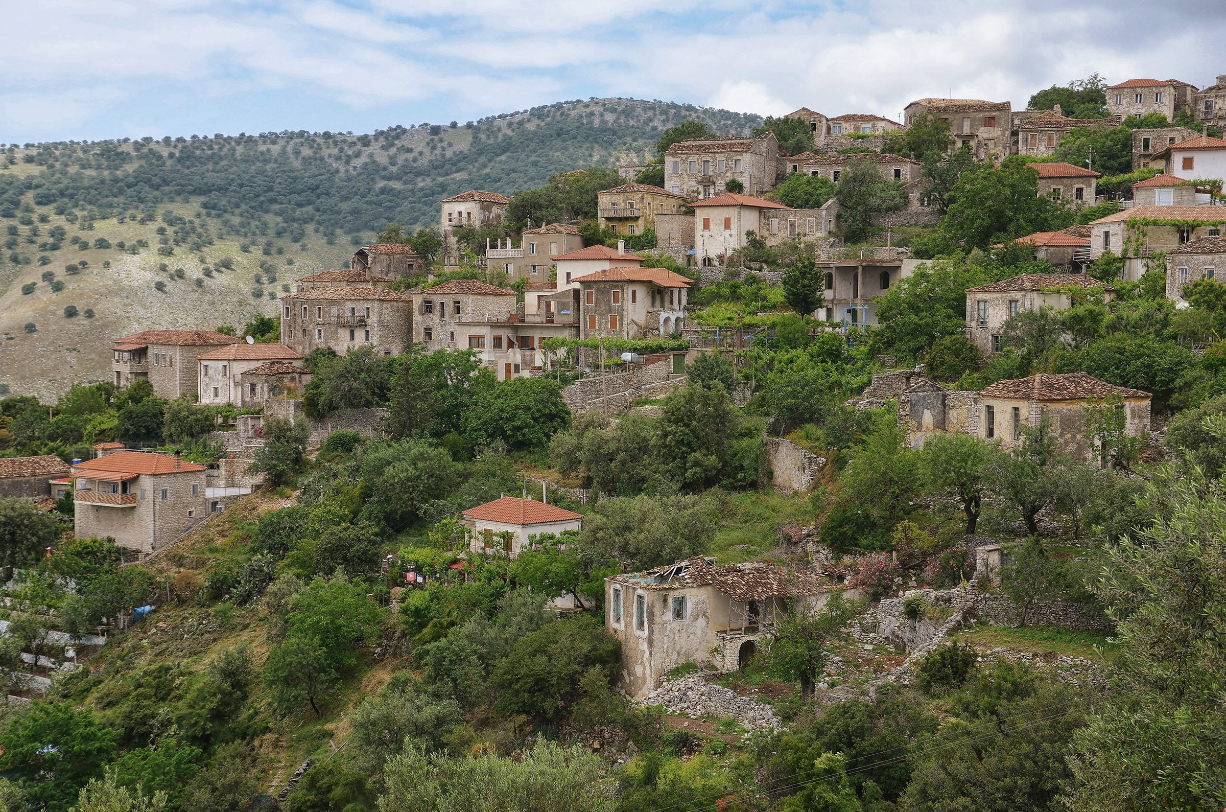 View on Qeparo i Sipërm, Himarë, Albania